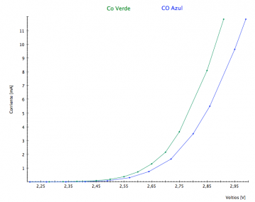 Proyecto de Innovación Docente 2013 de la ETSI de Telecomunicación UPM; coordinador P. Mareca, subido por Alvaro Nieto